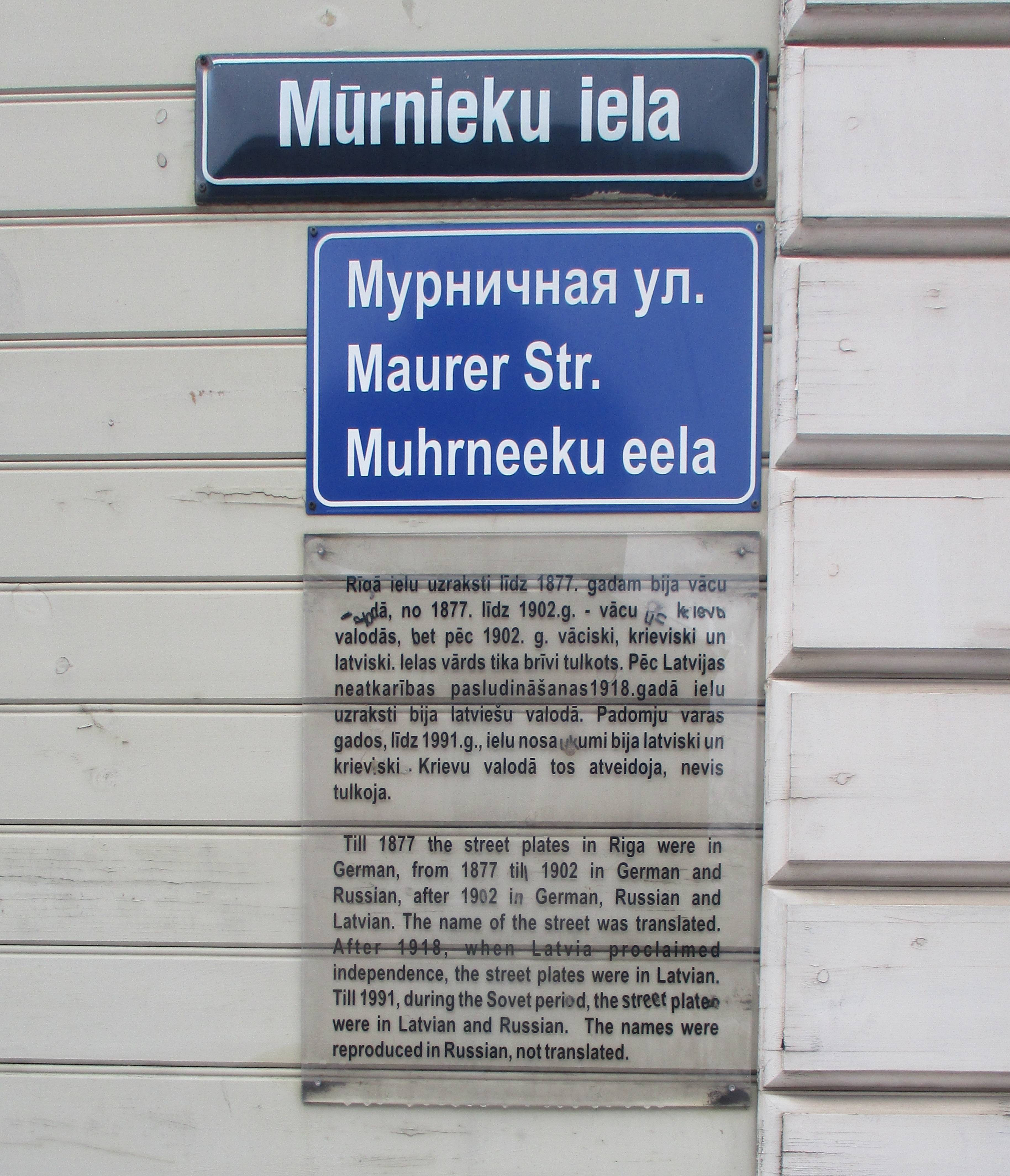 Street plate with the modern name of Mūrnieki Street in Latvian (Mūrnieku iela) and an additional trilingual plate with the historical street names in the Old Latvian orthography (Muhrneeku eela) and other historical state languages – Russian (Мурничная улица) and German (Maurer Straße).